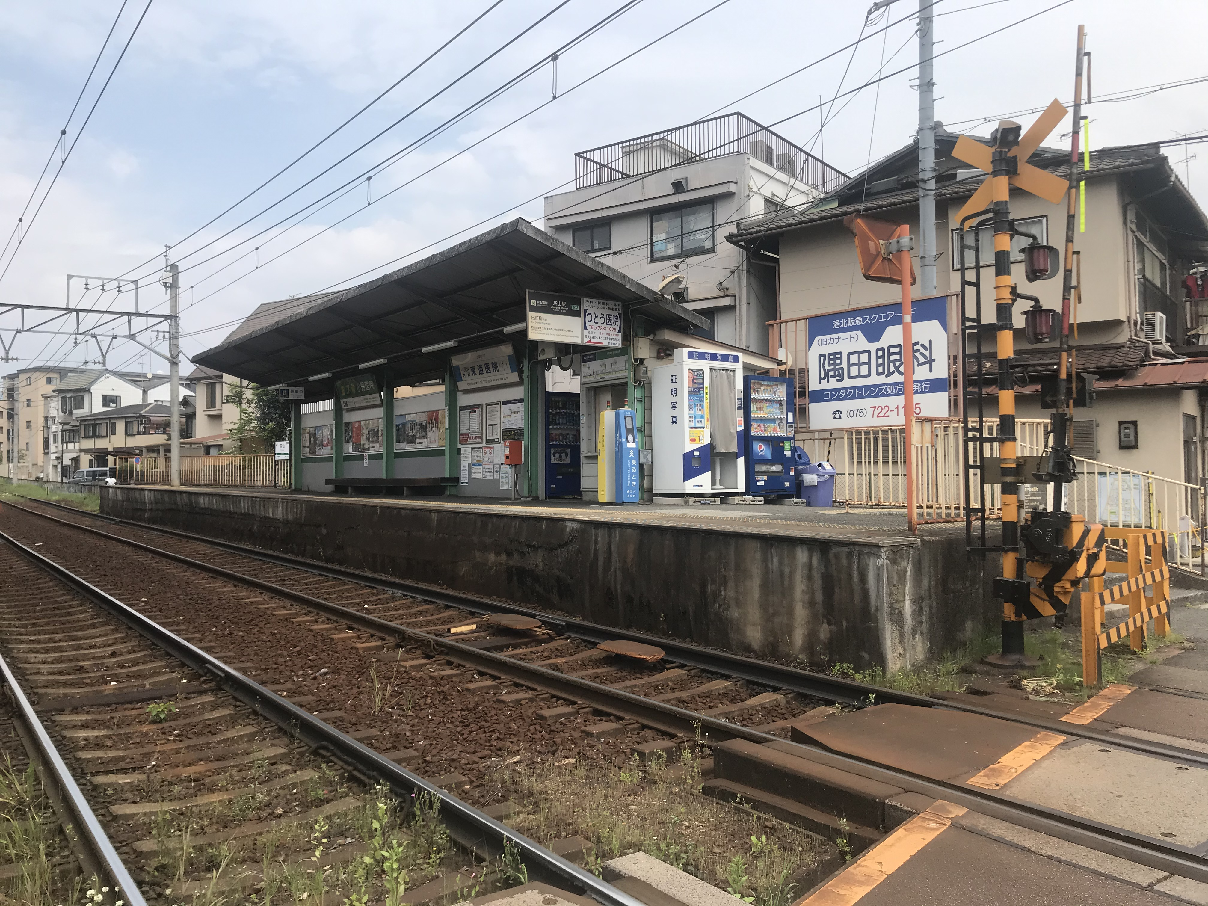 Chayama station Demachiyanagi bound platform